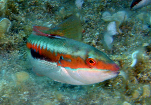 Coris julis, Croatia